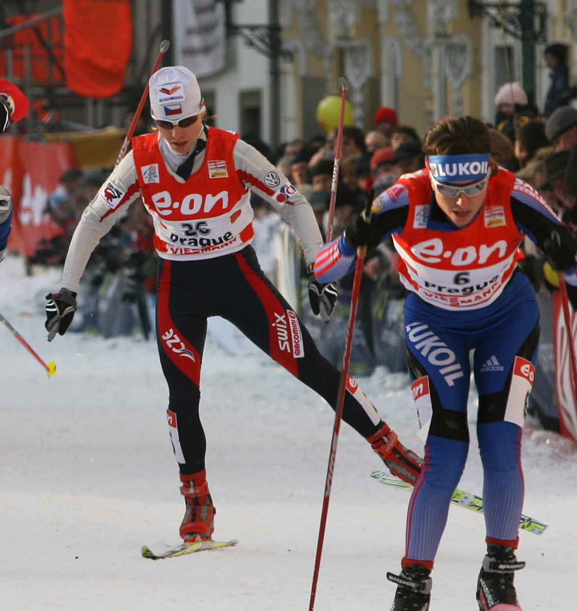 Helena Erbenová #26 behind Natalia Korosteleva #6 in the quarterfinals of Tour de Ski in Prague